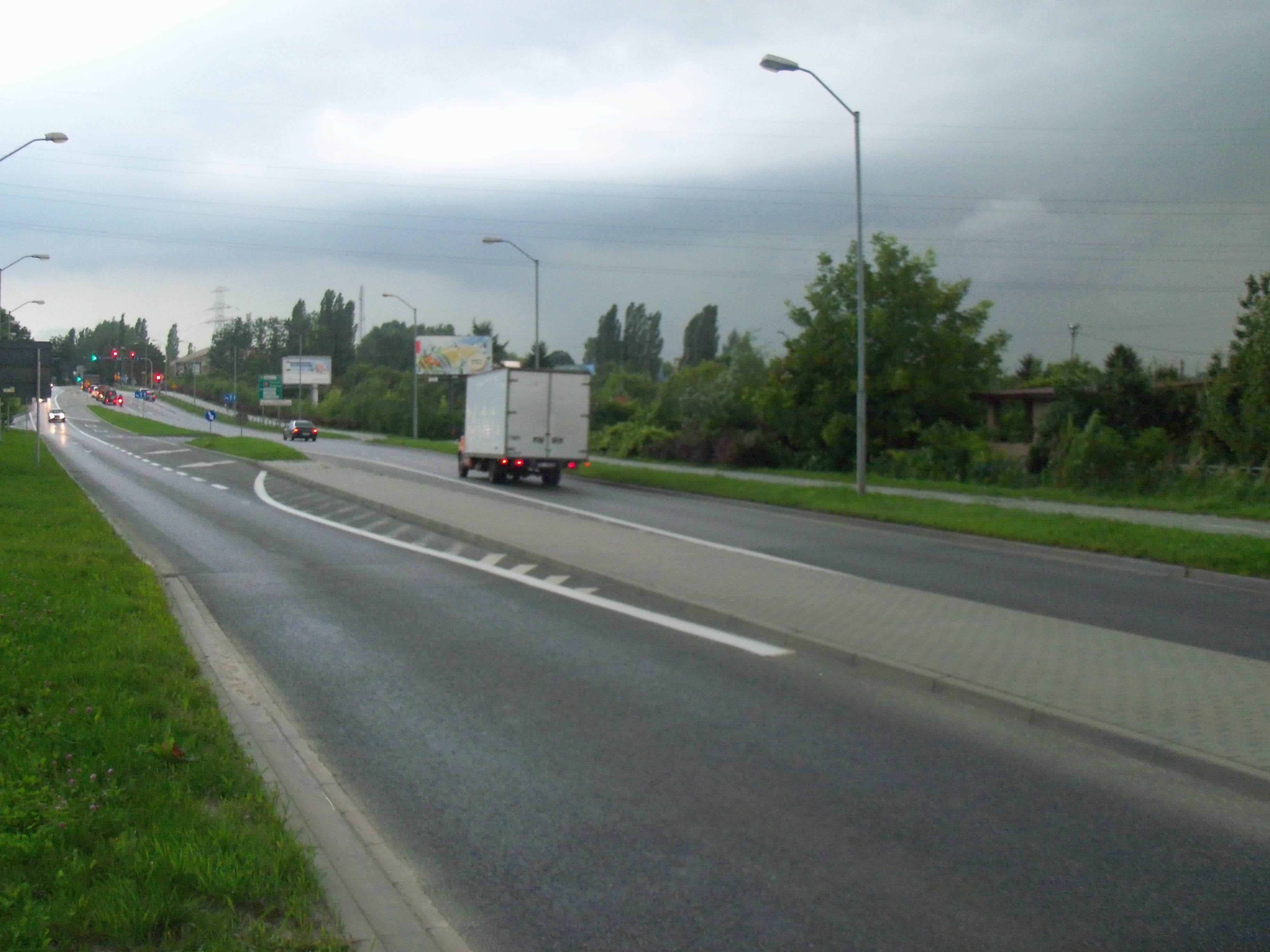 Leopolda Street in Katowice